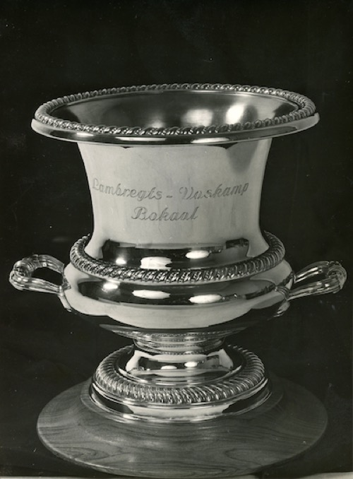 Lambergts-Voskamp Bokaal